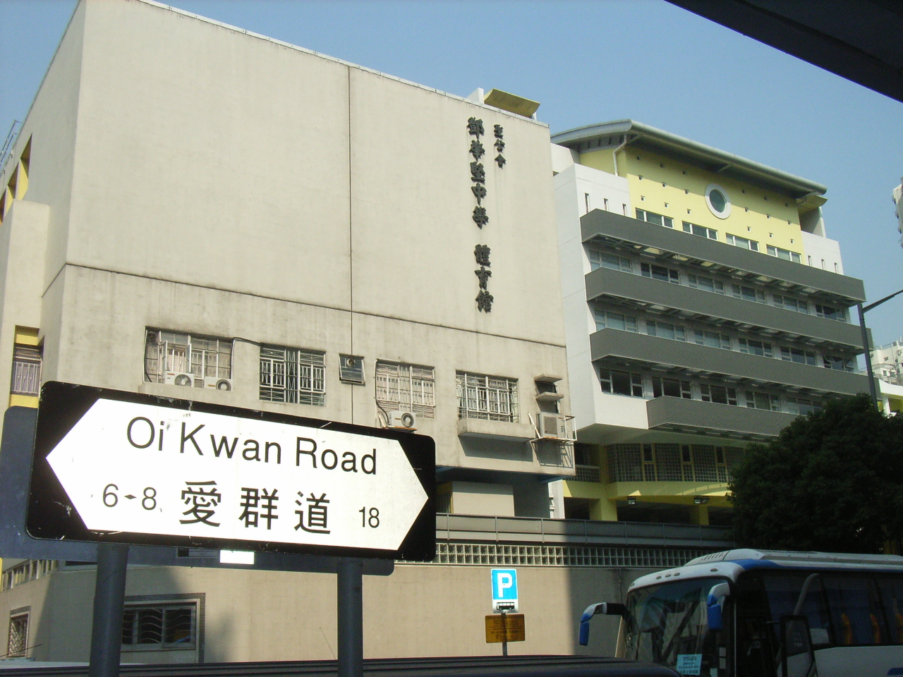 Around the Oi Kwan Road, Wan Chai, Hong Kong Author:Wenzi MHTI